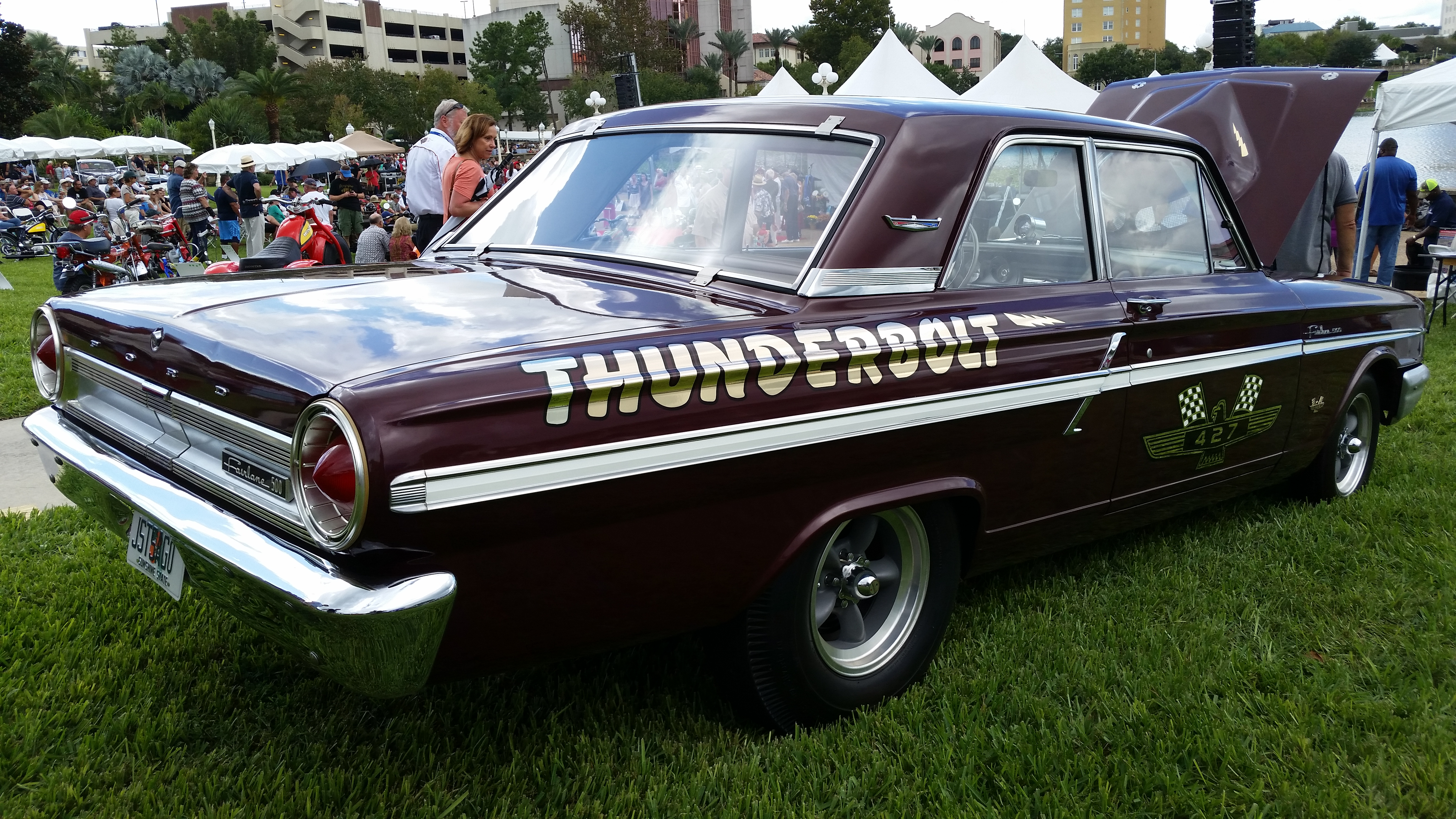 Lake Mirror Classic Auto Festival 2016 #LMC16 Frances Langford Promenade Lakeland, 33801 FL, US